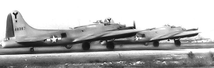 B-17G 44-6387 of the 815th Bombardment Squadron was lost on the mission to Ruhland, Germany on 22 March 1945, the bomber being hit first by Flak, then finished off by an Me-262. Eight survived as POWs. (USAAF Photograph)